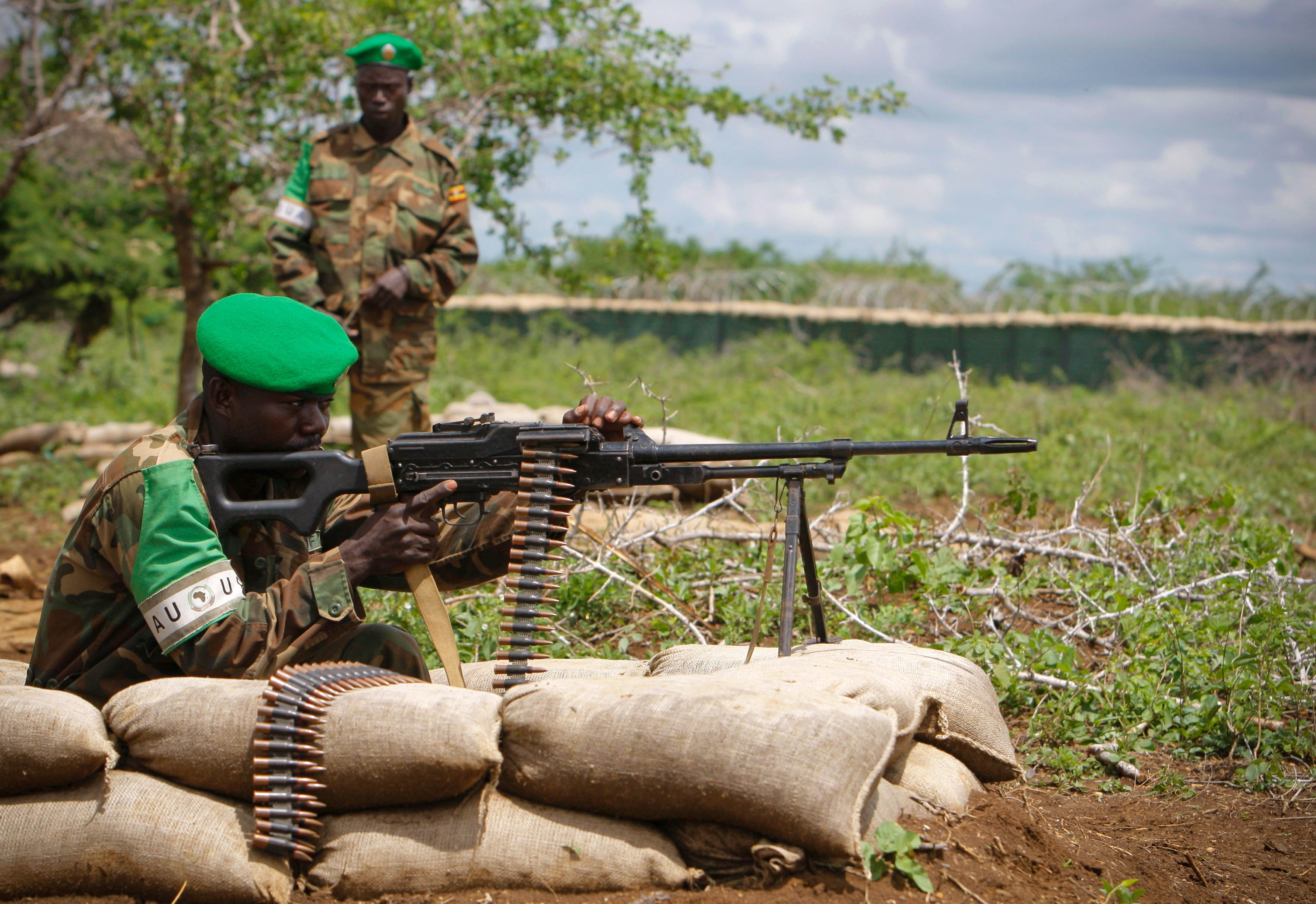 Ugandan soldiers serving with the African Union Mission in Somalia (AMISOM) man positions along a defensive line 15 May 2012, in the area surrounding Baidoa airstrip in central Somalia. An advance joint-contingent of 120 Ugandan and Burundian AMISOM troops are on the ground in Baidoa, 240km west of Mogadishu and are the first forces the AU mission has deployed outside the Somali capital since its initial deployment in 2007. Ethiopian forces took control of Baidoa from the Al-Qaeda-affiliated extremist group Al Shabaab in February of this year, one of string of strategic losses Shabaab has suffered with the group losing ground on three separate fronts to allied Kenyan and Somali National Army (SNA) forces in the south of the country; being driven from the Somali capital by SNA and AMISOM forces and conceding territory to the Ethiopians and pro-government militia in the west. AMISOM will soon deploy several thousand troops to Baidoa and the surrounding area, replacing the Ethiopian forces currently on the ground and expanding its operations throughout the country. AU-UN IST PHOTO / STUART PRICE.